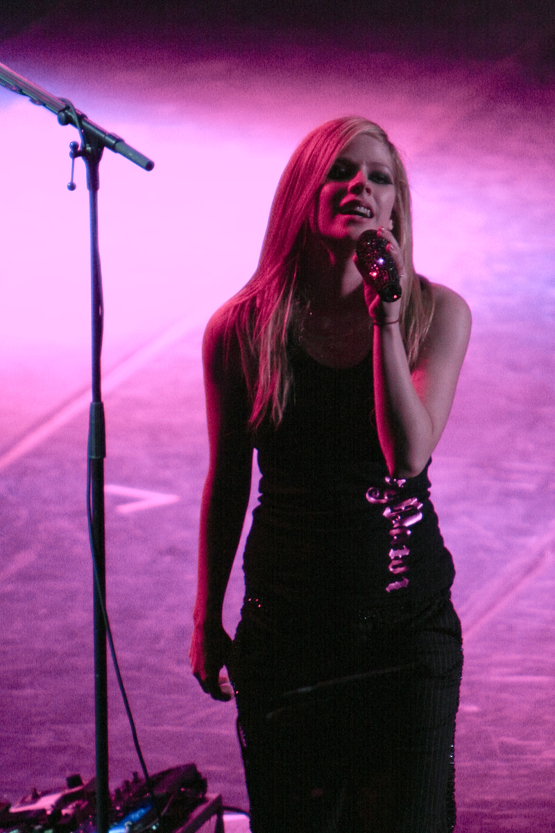 Avril Lavigne "The Best Damn Tour", Beijing Wukesong Arena, October 2008